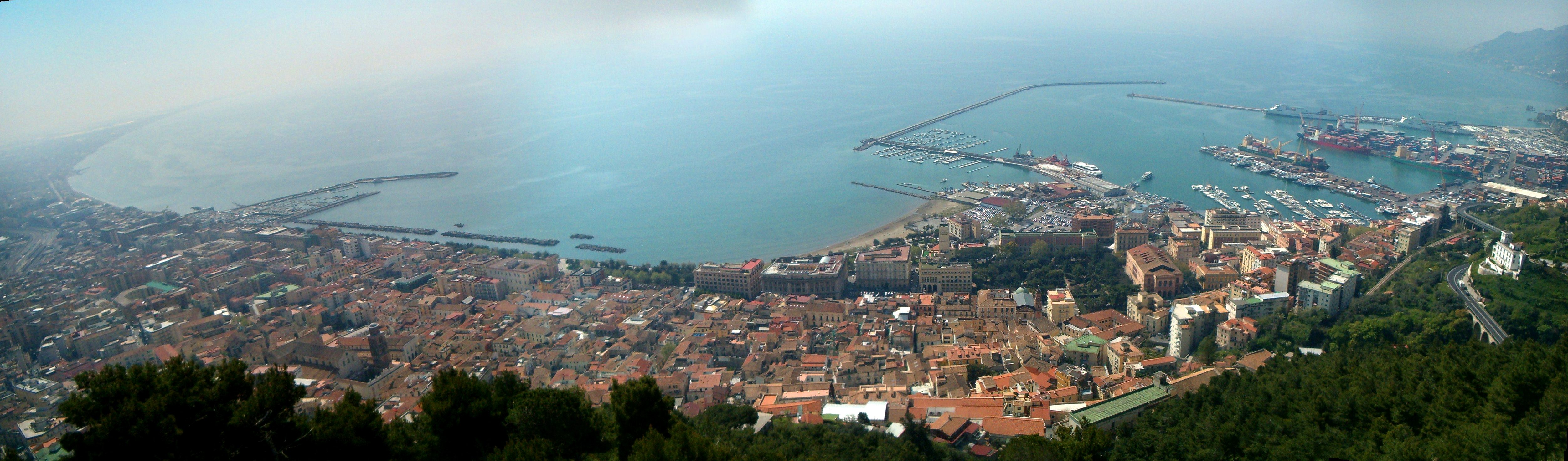 View of Salerno from the castle